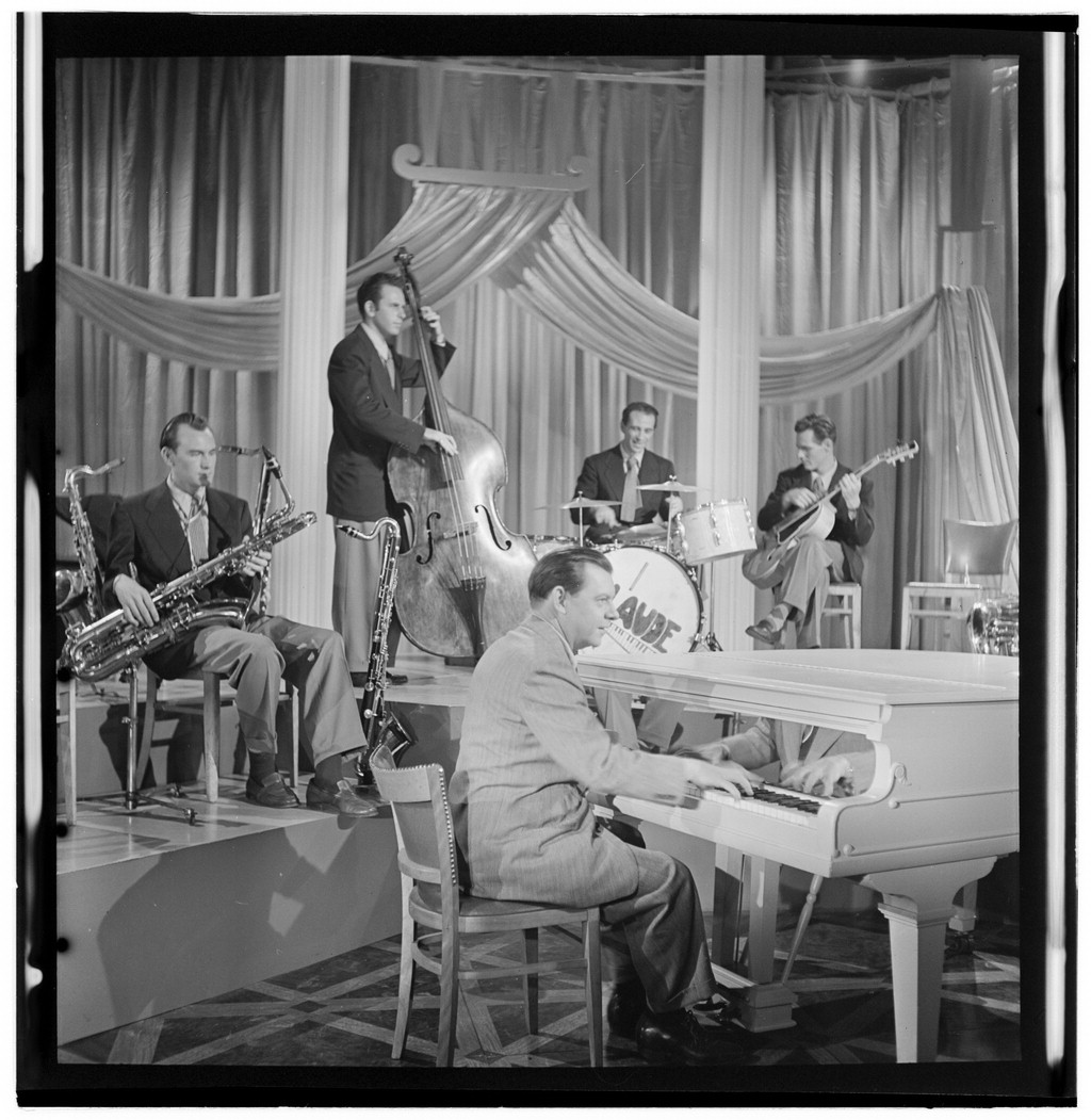 Gottlieb, William P., 1917-, photographer. [Portrait of Micky Folus, Joe Shulman, Claude Thornhill, Billy Exiner, and Barry Galbraith, Columbia Pictures studio, the making of Beautiful Doll, New York, N.Y., ca. Sept. 1947] 1 negative : b&w ; 2 1/4 x 2 1/4 in. Notes: Gottlieb Collection Assignment No. 316 Reference print available in Music Division, Library of Congress. Purchase William P. Gottlieb Forms part of: William P. Gottlieb Collection (Library of Congress). Subjects: Folus, Micky Shulman, Joe Thornhill, Claude Exiner, Billy Galbraith, Barry Claude Thornhill Orchestra Jazz musicians--1940-1950. Big bands--1940-1950. Conductors (Music)--1940-1950. Composers--1940-1950. Pianists--1940-1950. Columbia Pictures studio Format: Portrait photographs--1940-1950. Group portraits--1940-1950. Film negatives--1940-1950. Rights Info: Mr. Gottlieb has dedicated these works to the public domain, but rights of privacy and publicity may apply. Repository: (negative) Library of Congress, Prints & Photographs Division, Washington D.C. 20540 USA, (reference print) Library of Congress, Music Division, Washington D.C. 20540 USA, Part Of: William P. Gottlieb Collection (DLC) 99-401005 General information about the Gottlieb Collection is available at Persistent URL: Call Number: LC-GLB23- 0856 This work is from the William P. Gottlieb collection at the Library of Congress. Rights and restrictions.In accordance with the wishes of William Gottlieb, the photographs in this collection entered into the public domain on February 16, 2010.